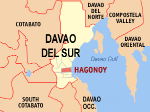 Map of the Davao del Sur showing the location of Hagonoy